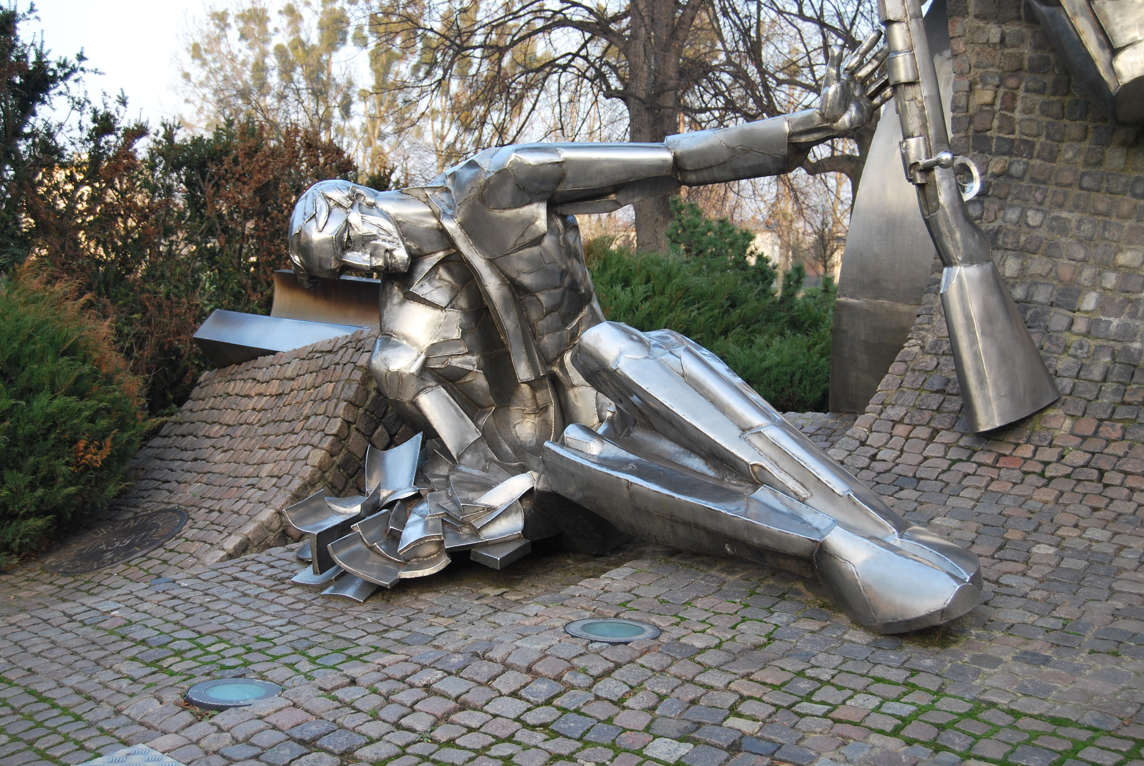 Defenders of the Polish Post Office in Gdańsk